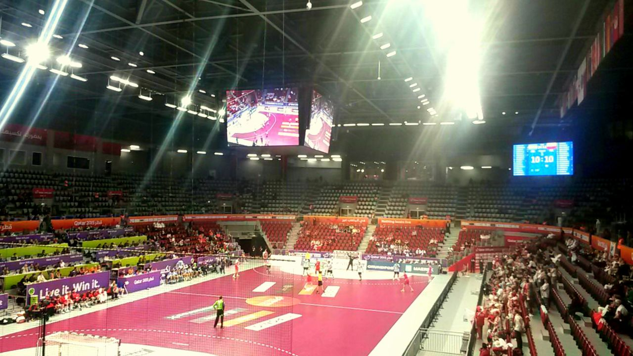 Argentina vs Poland, 2015 Men's World Handbal Championship in Qatar, Duhail Sports Hall